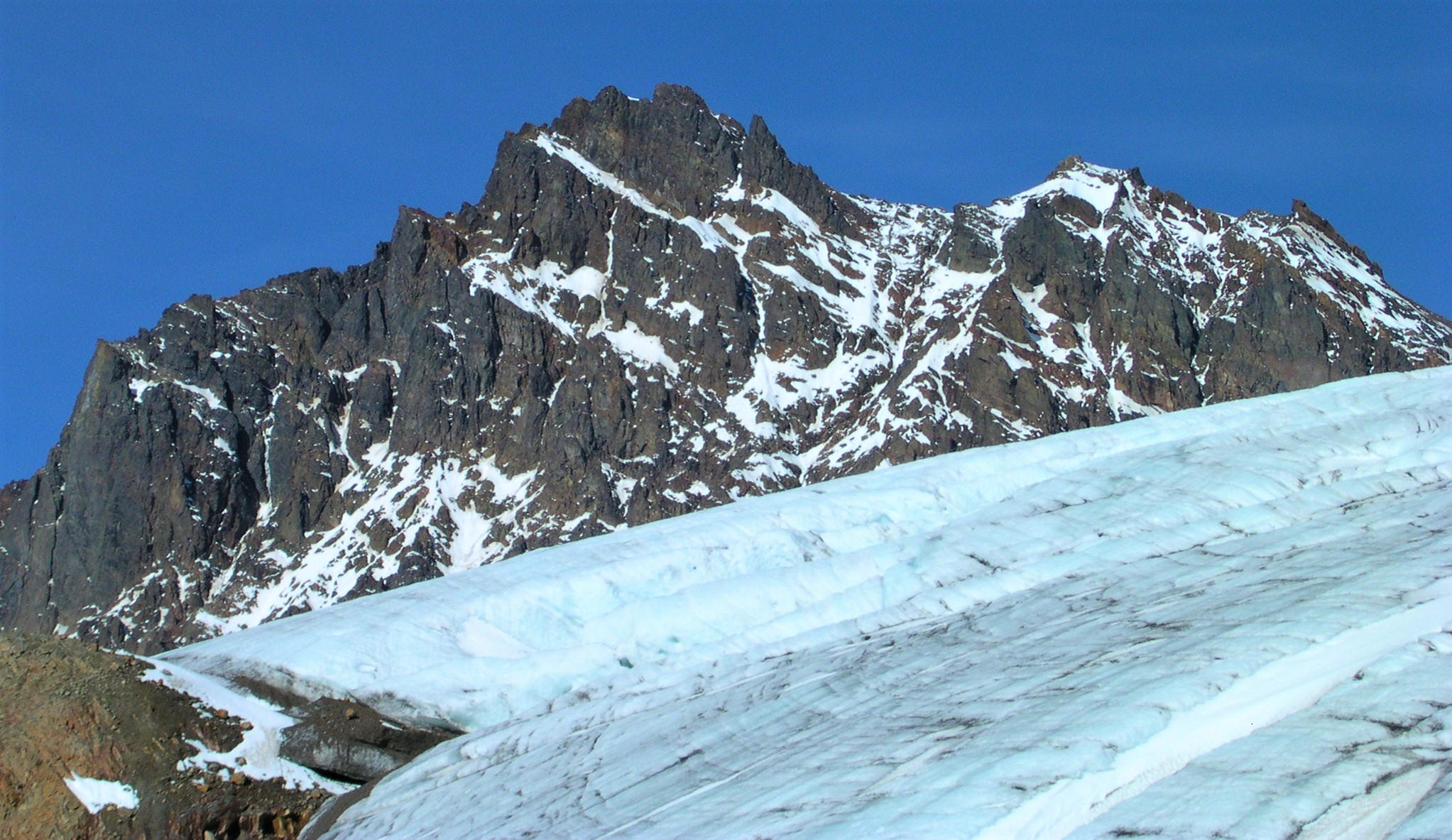 Mount Baker's Colfax Peak from south